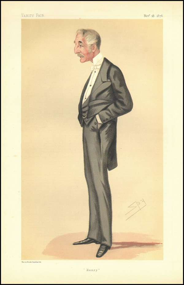 Caricature of General Sir Henry Percival de Bathe, 4th Baronet KCB (1823-1907). Caption read "Henry".